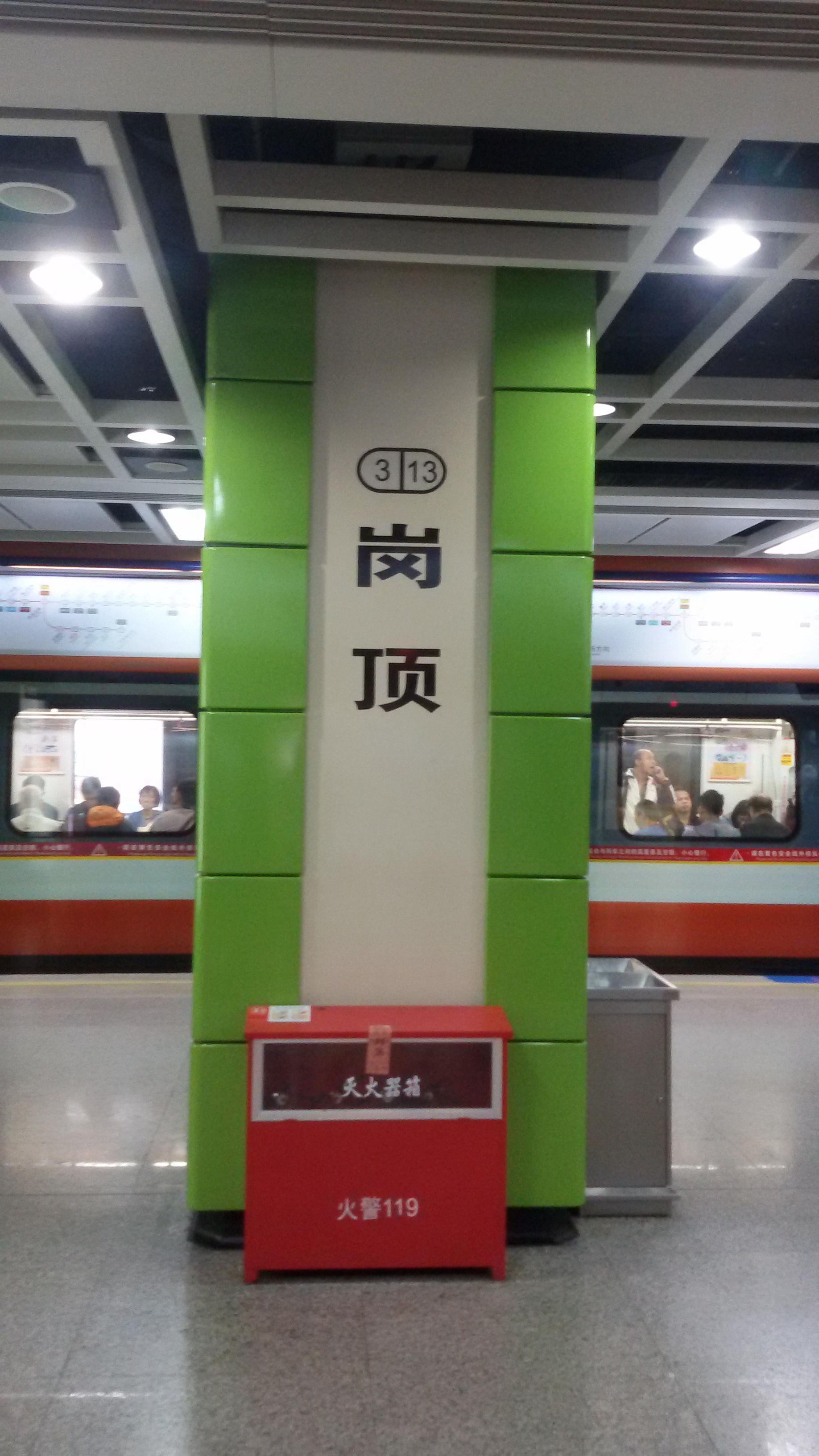 WORD on PILLAR for Gangding Station in Guangzhou Metro